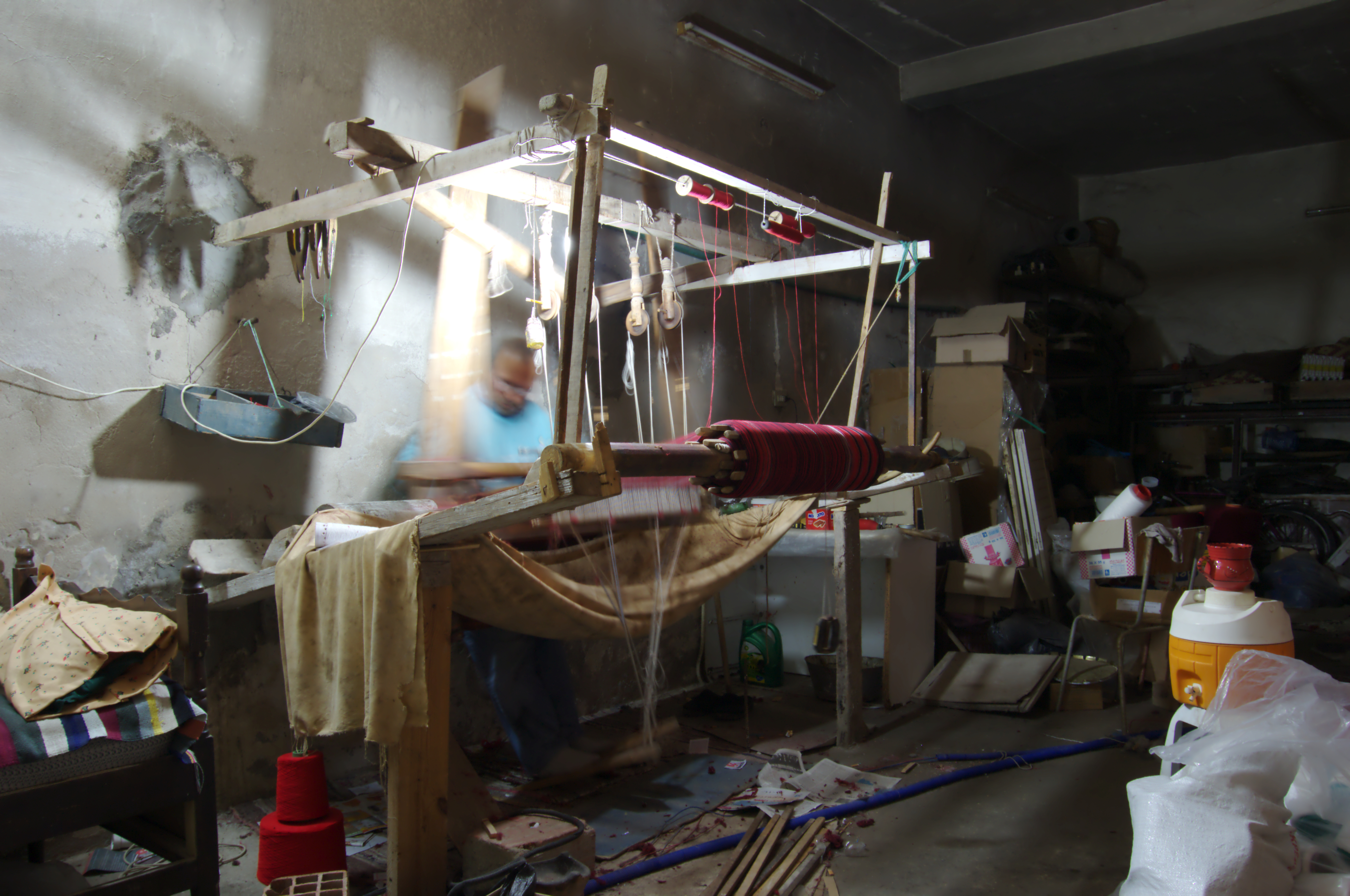 Weaving shop in Sayada, Tunisia